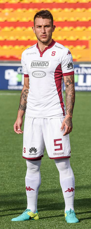 Francisco Calvo playing for Deportivo Saprissa in August, 2016.